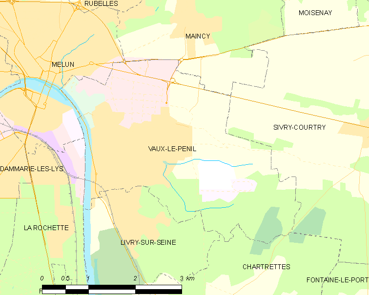 Map of French municipality Vaux-le-Pénil